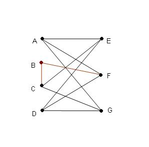 This is an example for a Non Planar graph that doesn't have K3,3 or K5 as its subgraph. But this graph has a subgraph homeomorphic to K3,3.